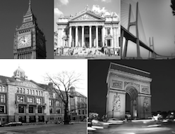 The locations of all Euronext Stock Exchanges (clockwise): London, Brussels, Lisbon, Paris, Amsterdam